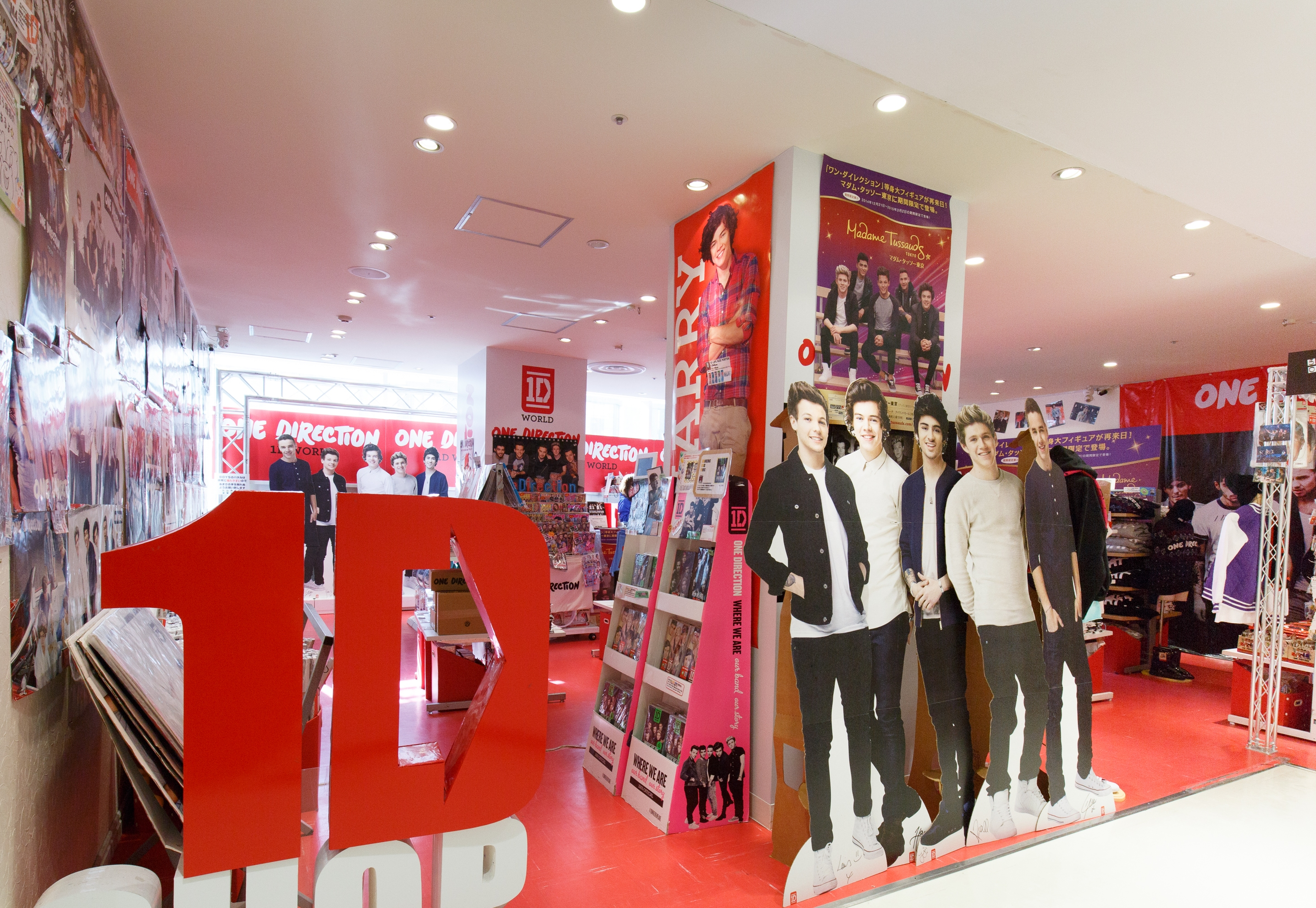 One Direction Official Store 1D WORLD Tokyo